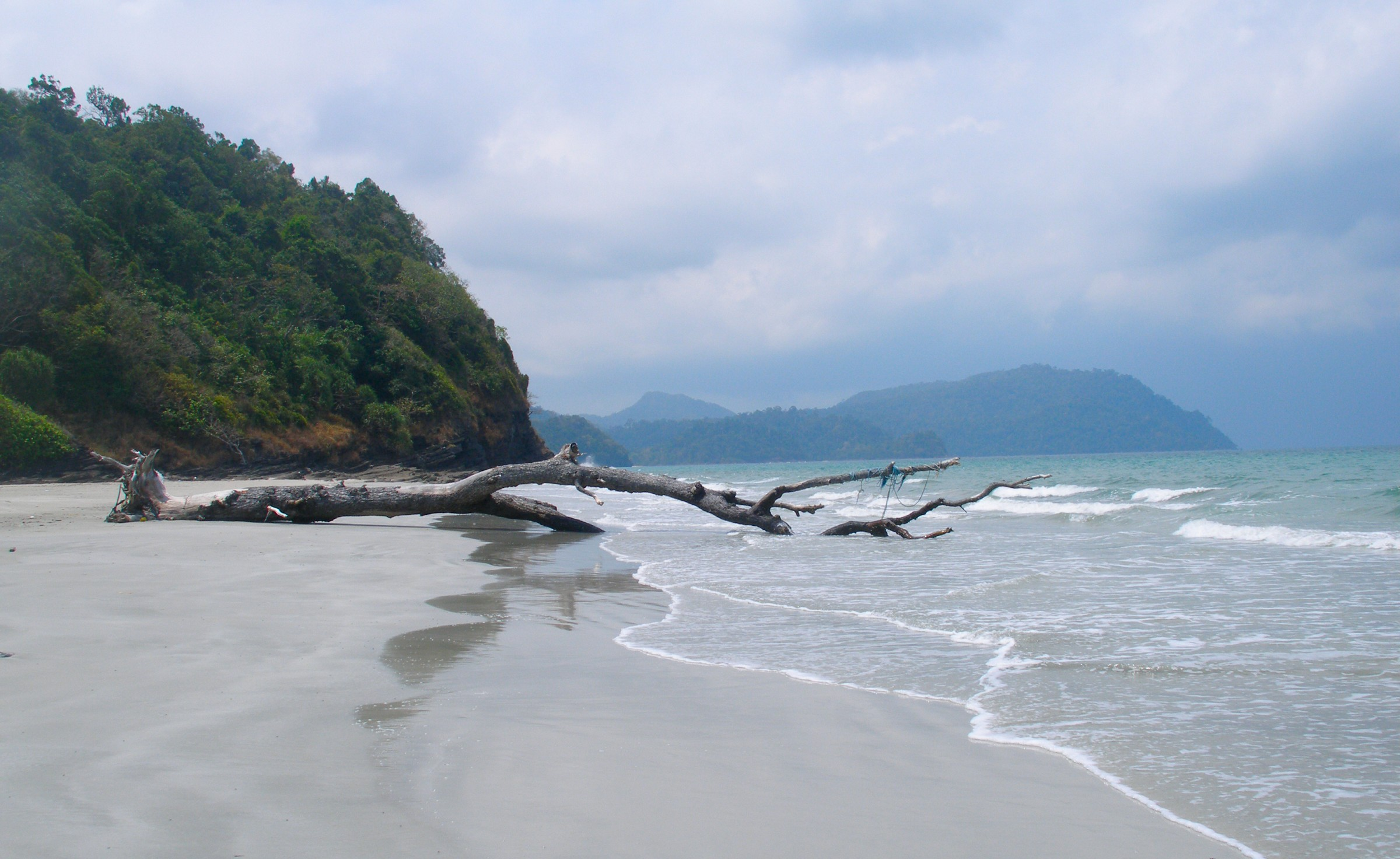 West coast of Koh Tarutao island in Thailand, nestling ground for turtles